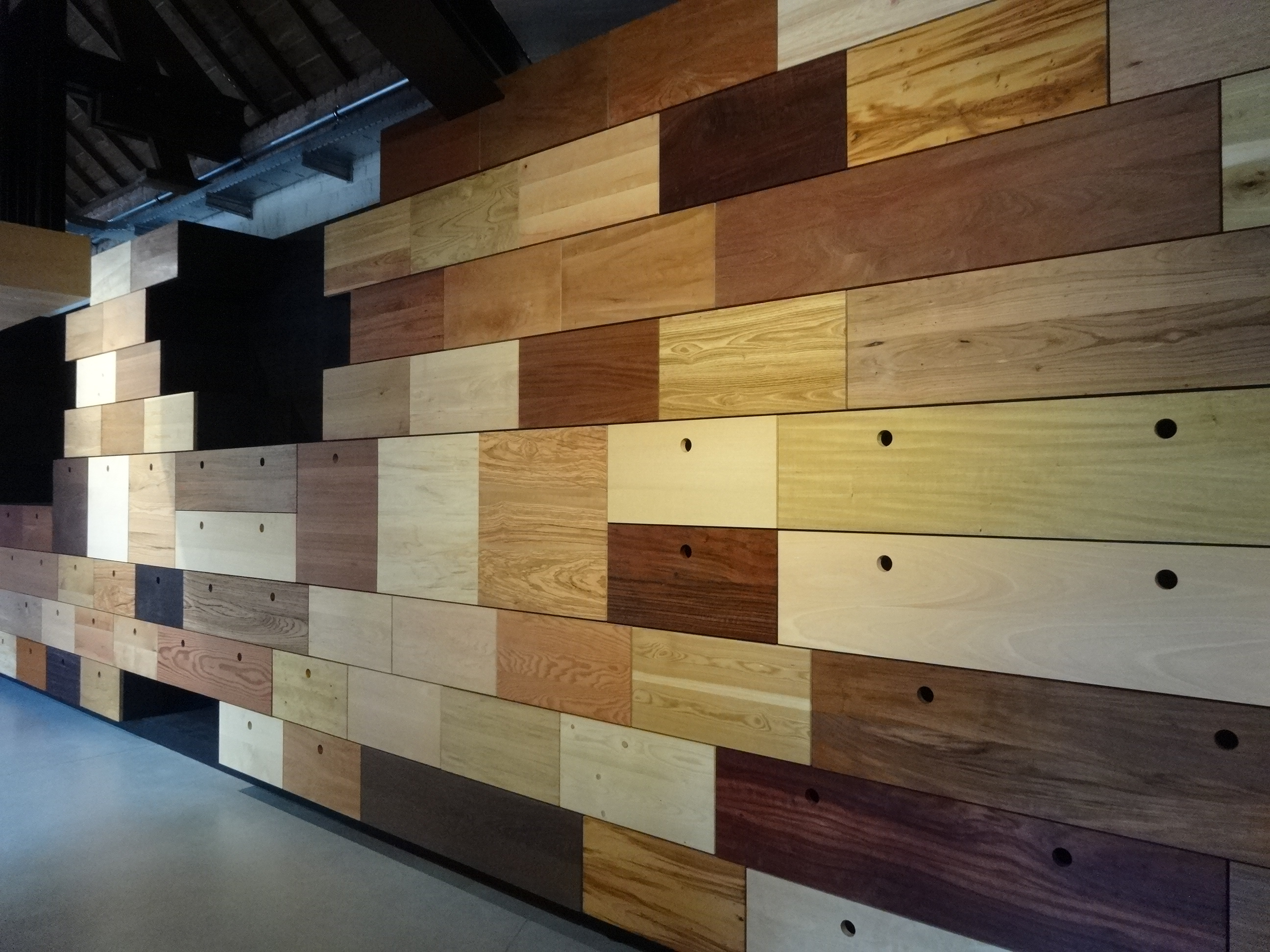 WOODlab, Meise Botanic Garden, Wonder Wood Wall